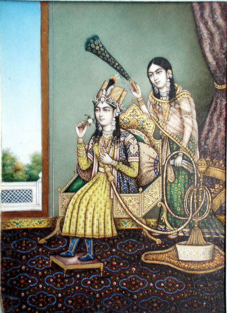 Mumtaz Mahal with attendant. Delhi, Anglo-Indian school. Gouache with gold leaf on ivory. Circa mid-19th century. 16cm by 10cm. Mumtaz Mahal, consort of Shah Jahan, seated..., 1860 (source Artnet)